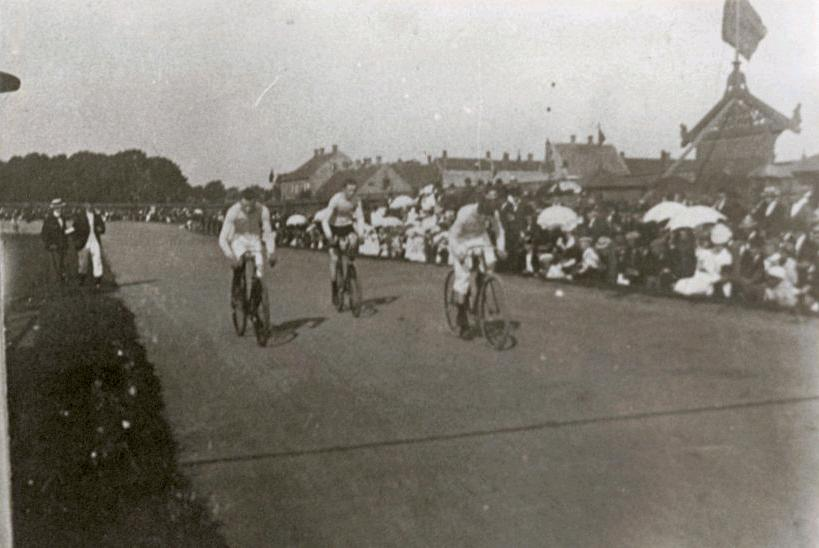 Picture from 1895, from the first sport venue in Landskrona. Its formal name was Velocipedbanan, but people called it simply "Banan"